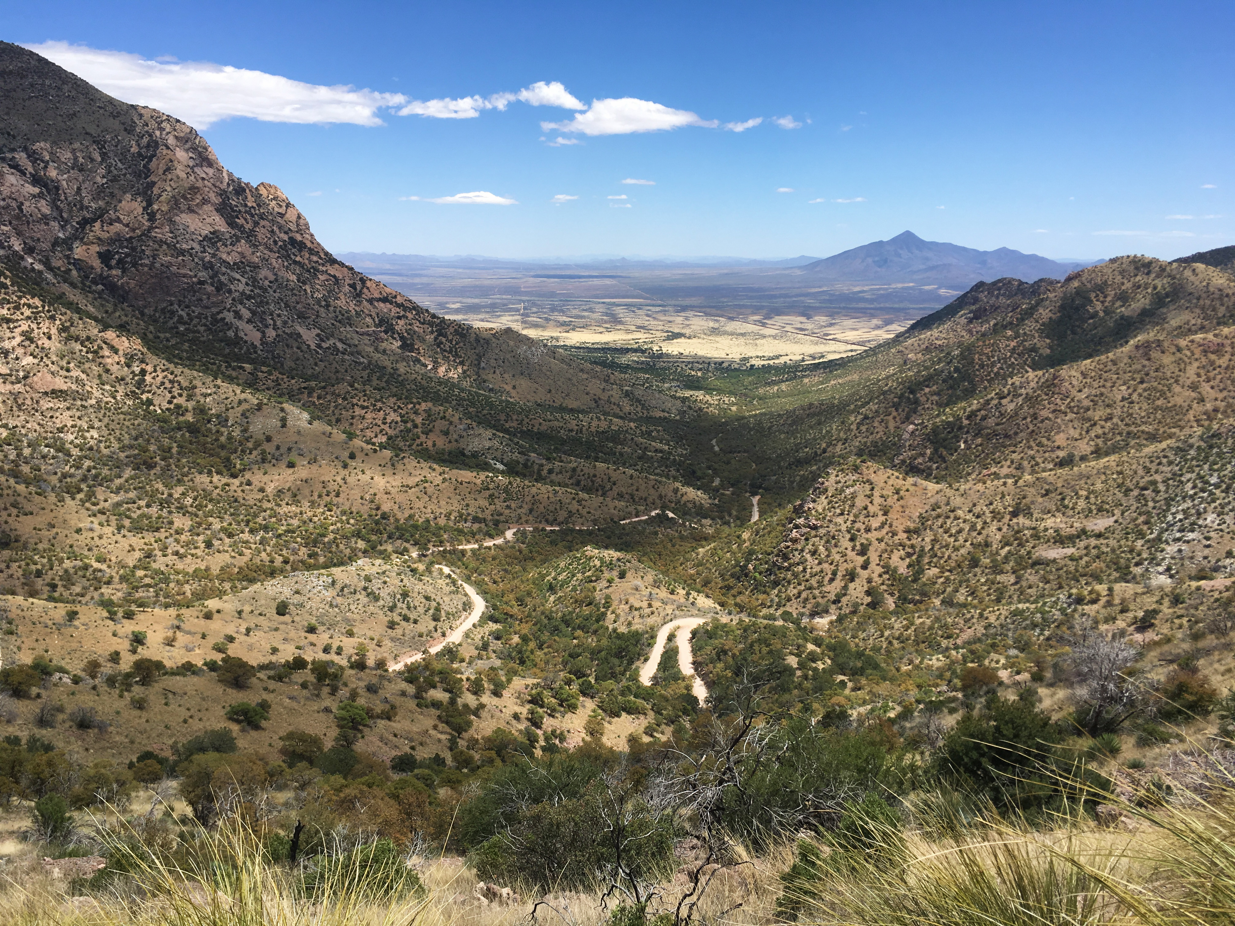 View to the east from the Montezuma Pass Overlook at Coronado National Memorial, Arizona, United States. Visible are Montezuma Canyon and the Montezuma Pass Road. The road is a historic feature contributing to the memorial's status on the National Register of Historic Places.